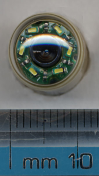 I produced this image by putting a (used) capsule on the scanner next to a ruler.